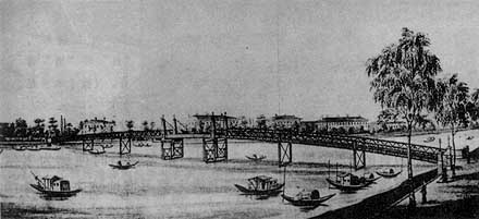 This image is now in the public domain because its term of copyright has expired in China. According to copyright laws of the People's Republic of China (with legal jurisdiction in the mainland only, excluding Hong Kong and Macao) and the Republic of China (currently with jurisdiction in Taiwan, the Pescadores, Quemoy, Matsu, etc.), all photographs enter the public domain fifty years after they were first published, and all non-photographic works enter the public domain fifty years after the death of the creator.